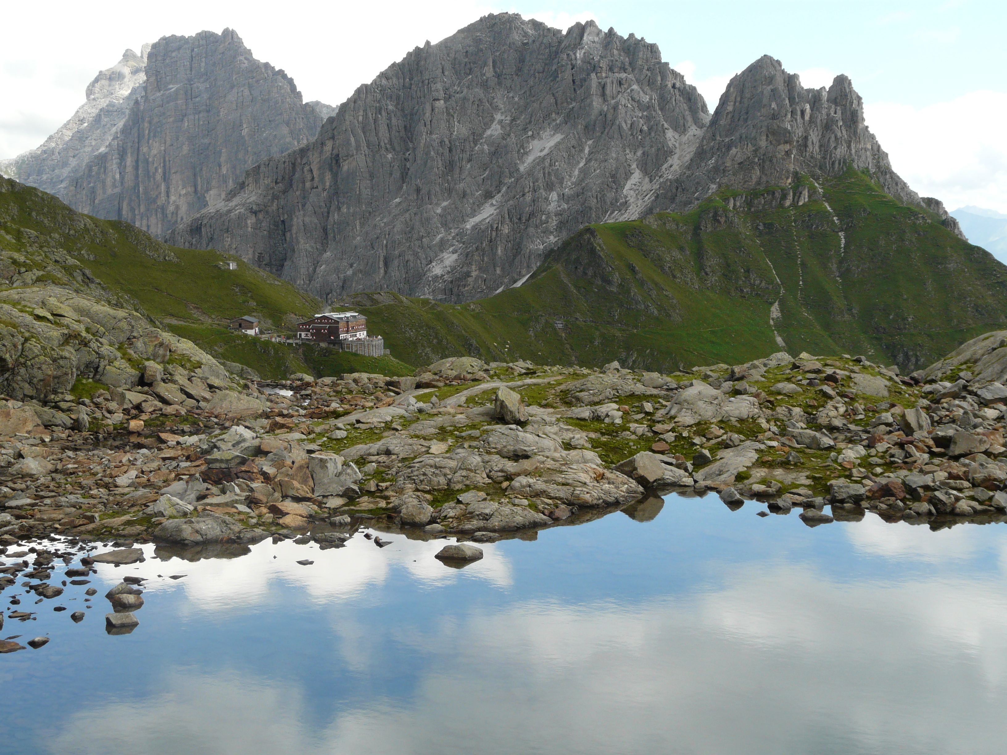 Innsbrucker Hütte with Alfaier See, Pinnisjoch and Kirchdachspitze